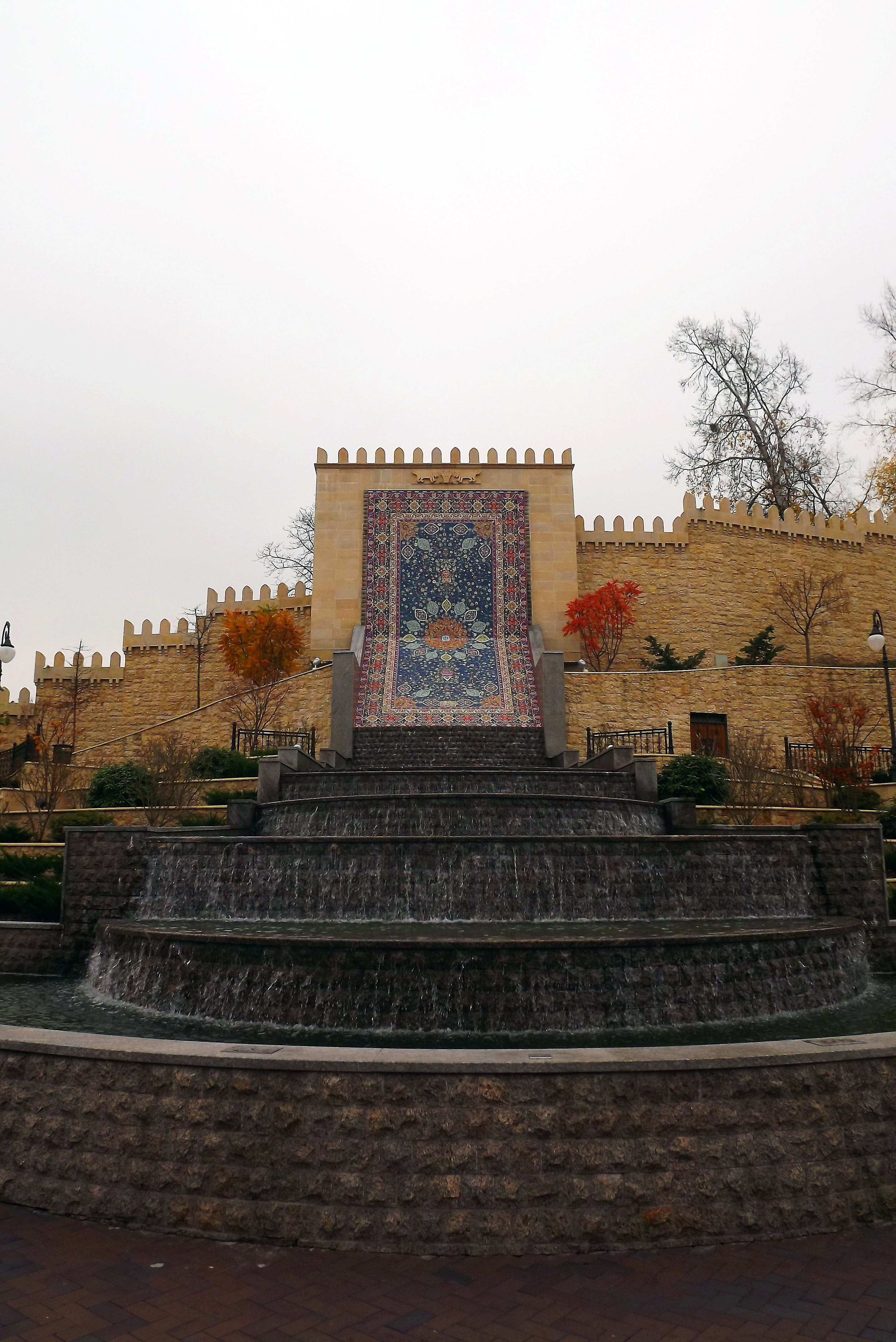 Fountain in the park near the Embassy of Azerbaijan in Ukraine